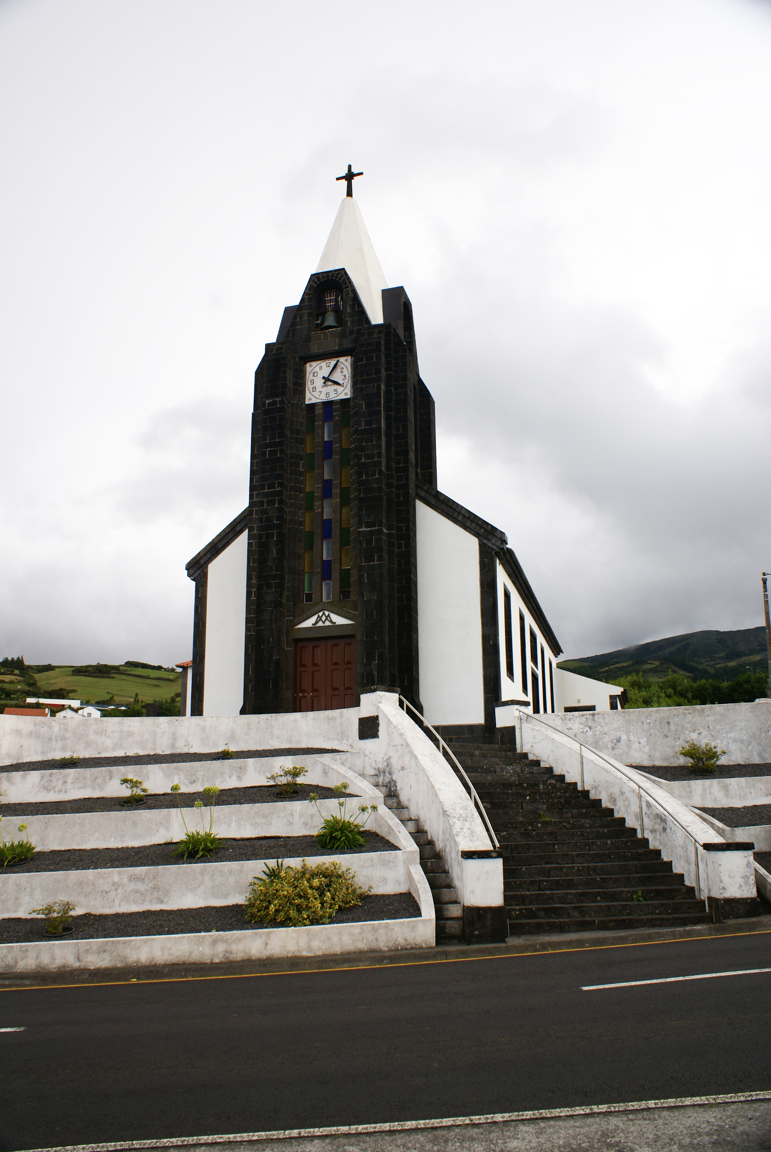 Church of Nossa Senhora de Fátima, Ribeira Funda, Cedros, Horta, Faial (Azores), Portugal